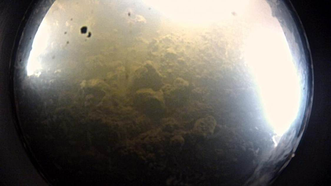 First view of the bottom of Antarctic subglacial Lake Whillans, captured by the high-resolution imaging system aboard the Micro-Submersible Lake Exploration Device. The imagery and other data from the mini-sub were used to survey the lake floor and help the WISSARD team verify that the rest of their instruments could be safely deployed into the lake. Image credit: NASA/JPL-Caltech